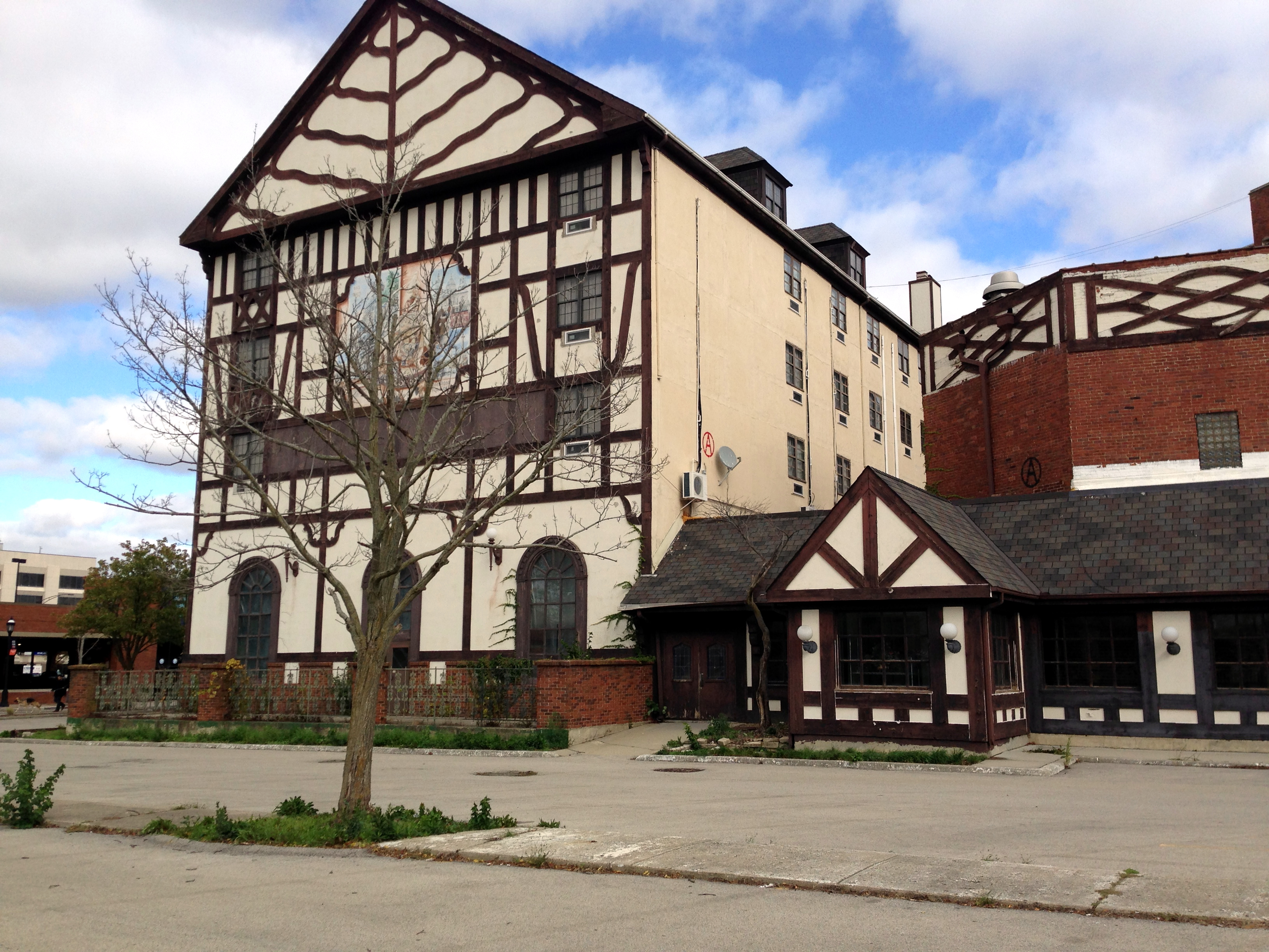 Exterior of the Urbana Landmark Hotel (no longer in operation)